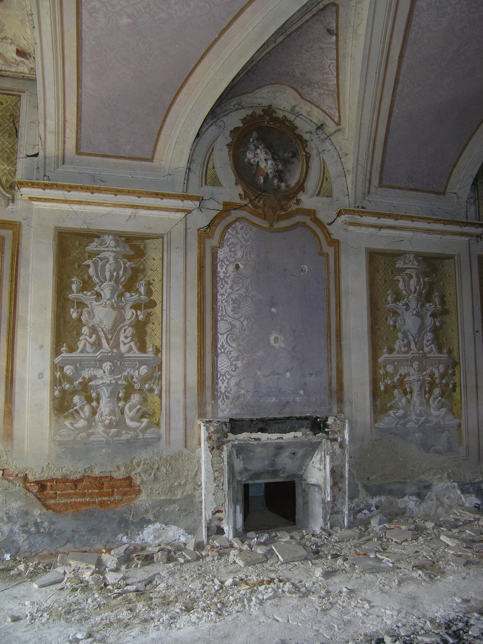 Benso di Cavour family palace interns at Leri Cavour (Italy)